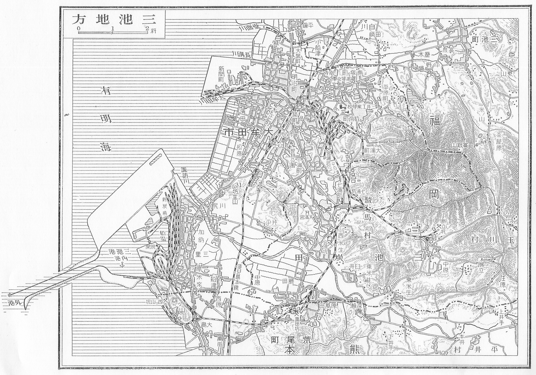 Miike map circa 1930